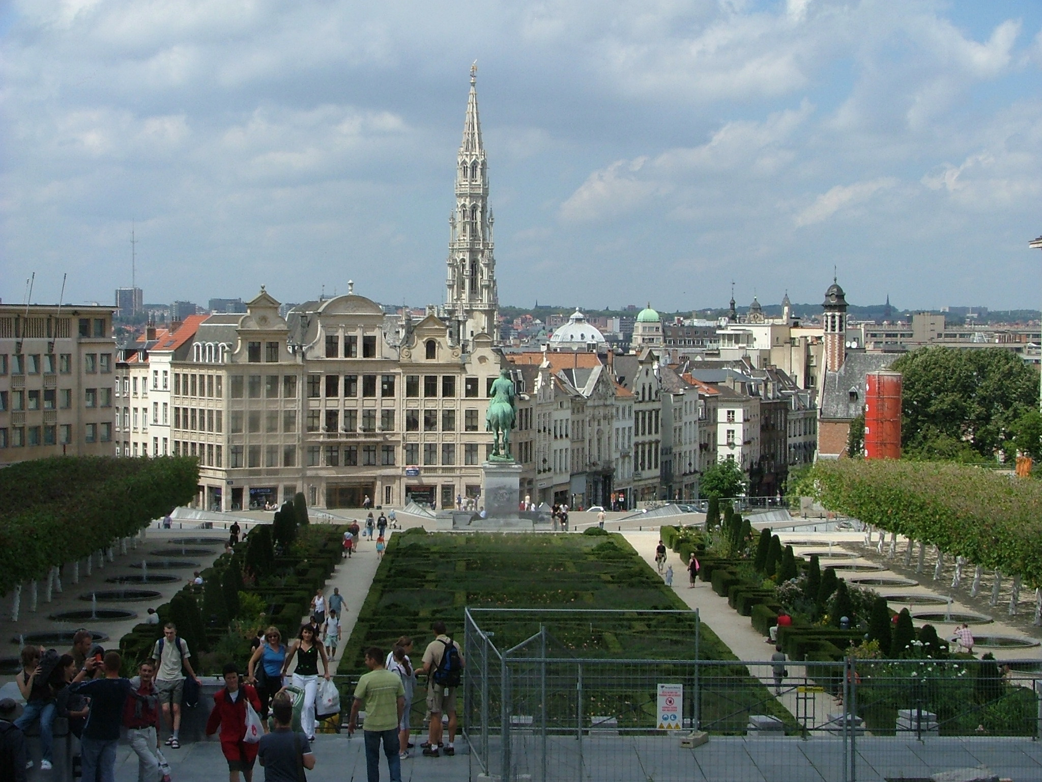 View on Brussels from the Kunstberg and view on the park and statue at the Kunstberg. Belgium, Bruxelles - Brussel, Pl: Belgia, Bruksela